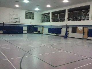 This is the single gym in Catholic Central, located on the second floor of the school.